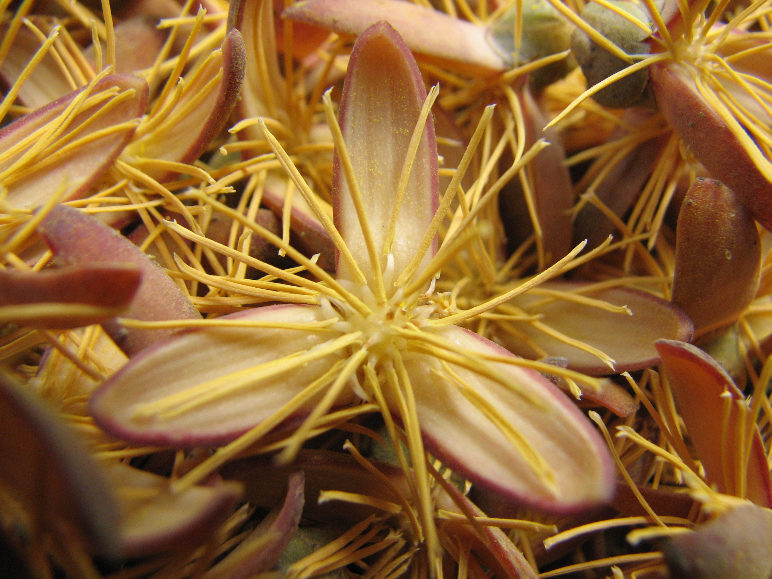 The flower of Fish tail palm in detail.